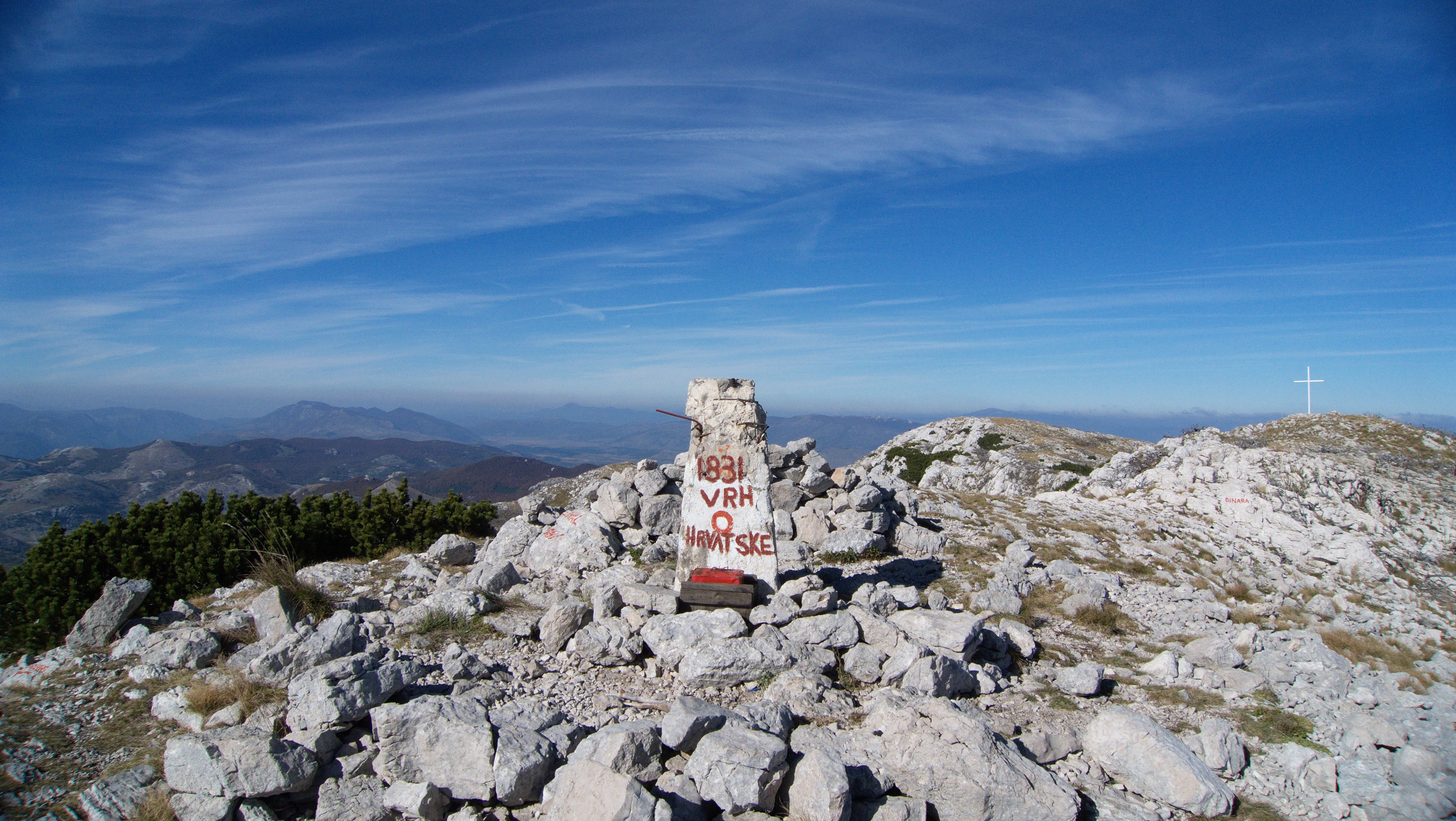 Sinjal, the peak on Dinara, the highest Croatian peak (1831 m).